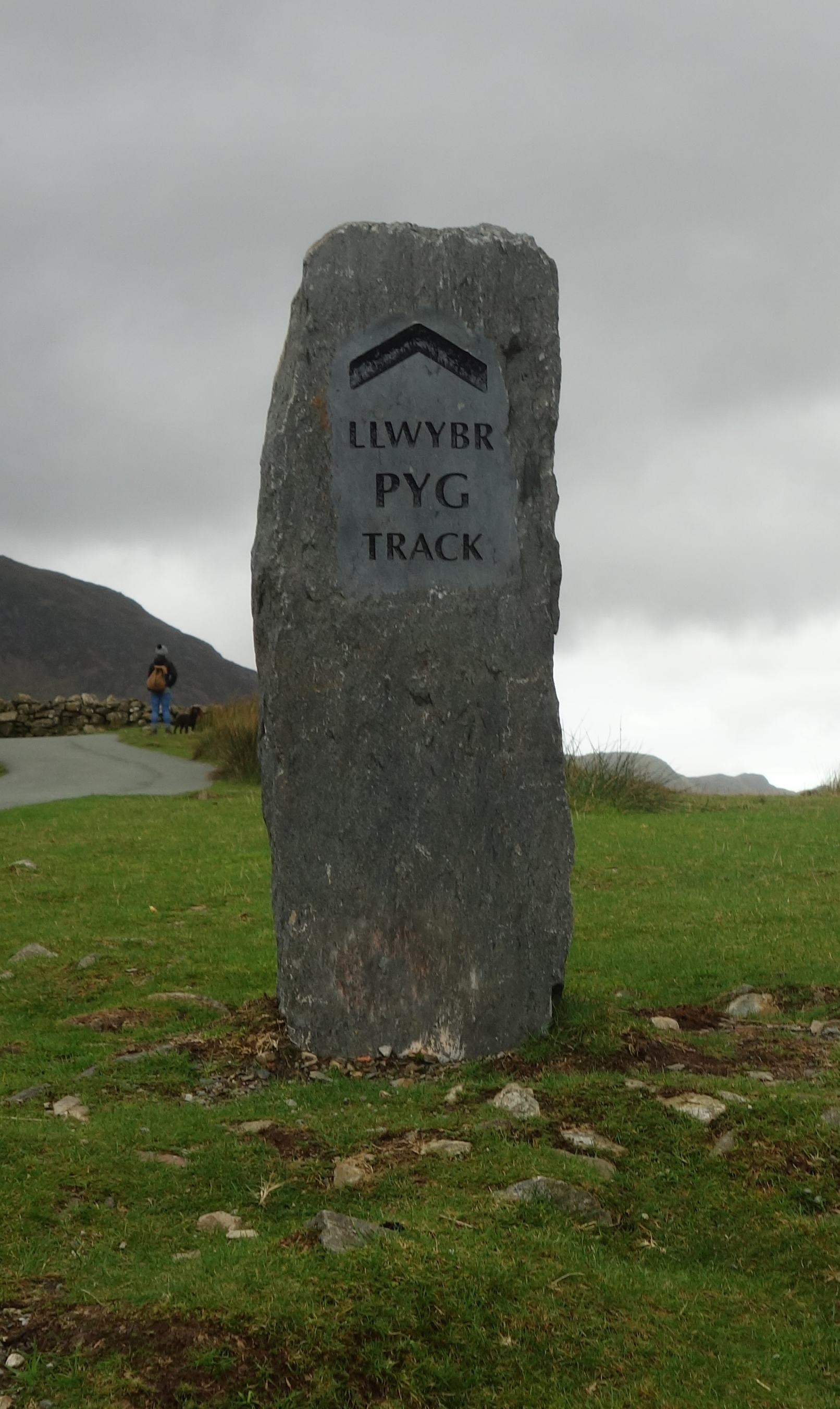 This is the marker at the start of the Pyg Track up Snowdon